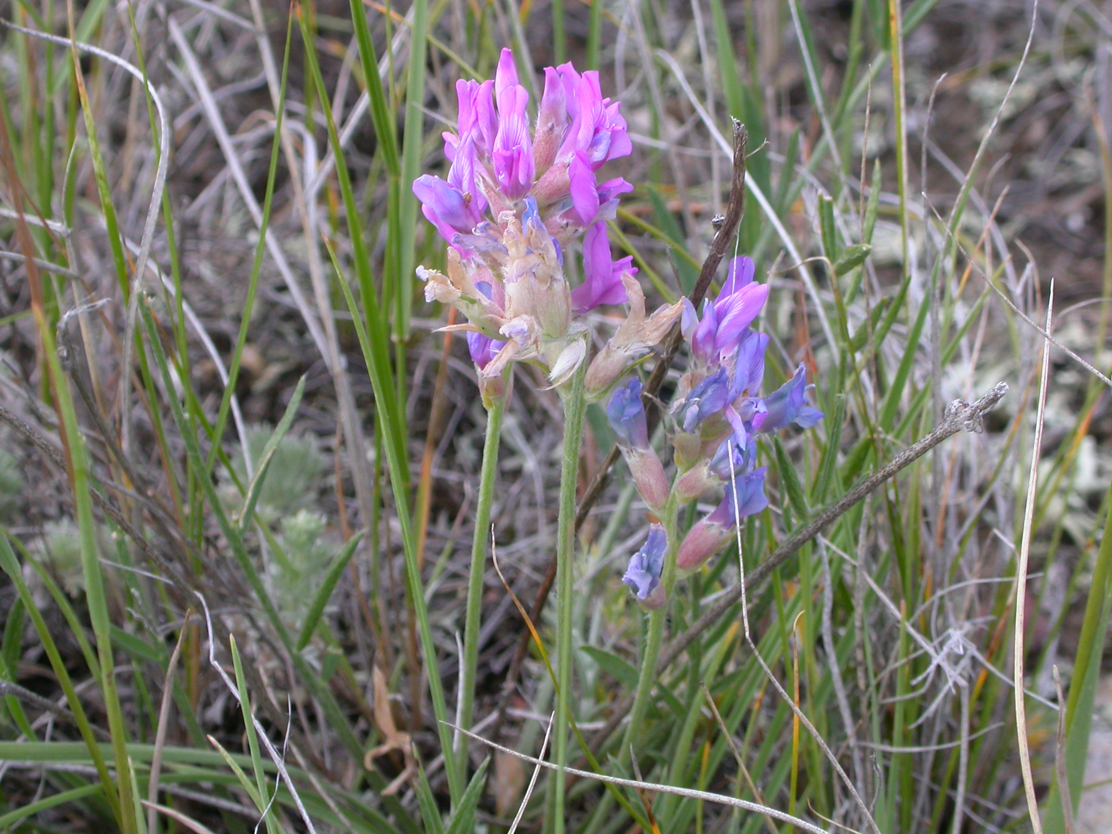 This species is well marked by its narrowly elliptical leaflets covered with medifixed (dolabriform) hairs.